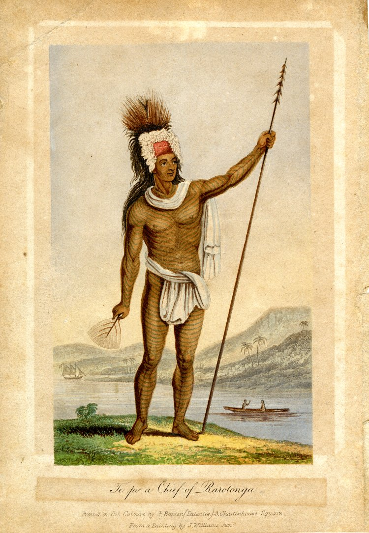 Portrait of Te Po, a Chief of Rarotonga, Cook Islands, wearing a headdress, a piece of cloth draped aound his neck, a loin cloth, body tattoo markings, and holding a spear and a fan made from feathers. View of a canoe in the background with two people on board.